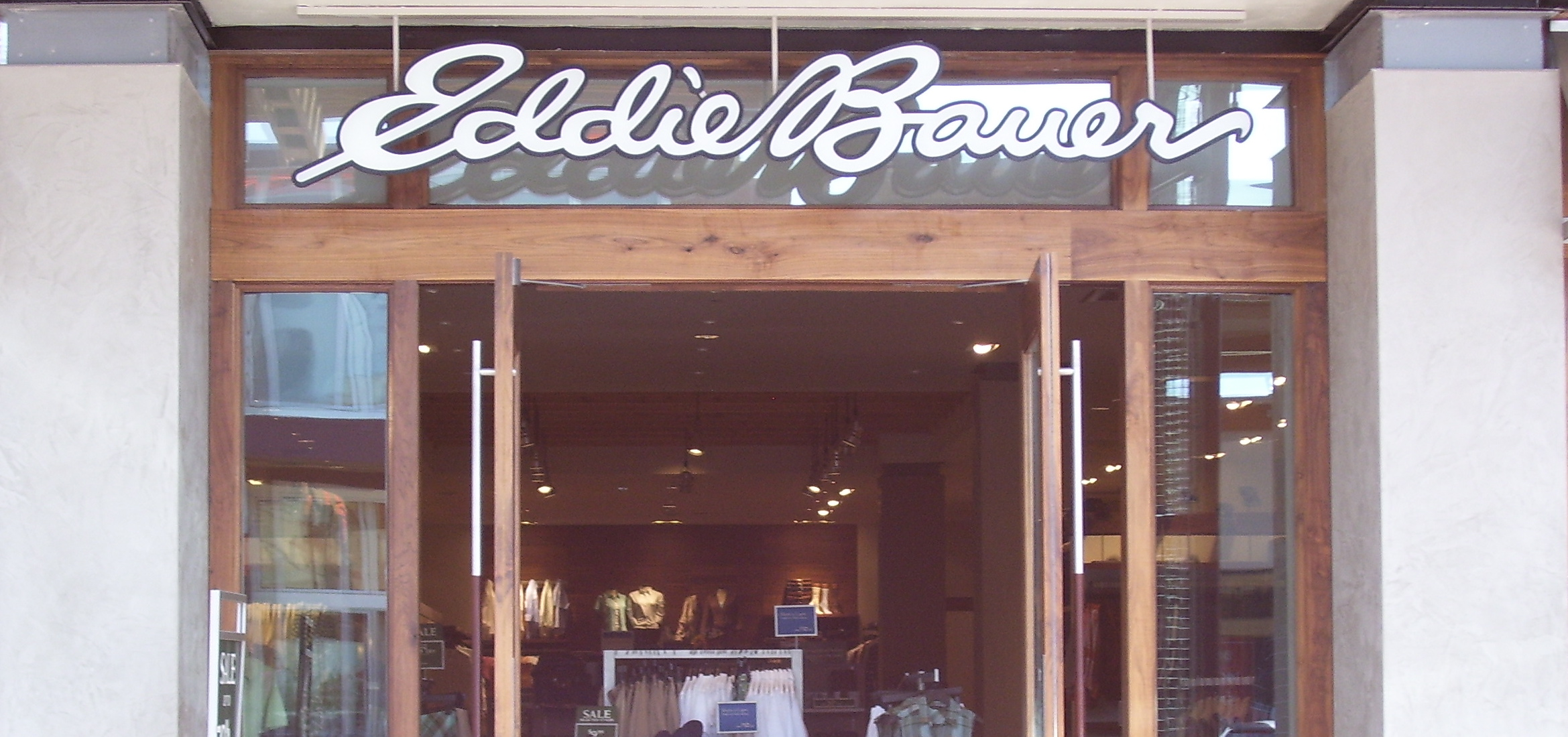 Eddie Bauer Apparel store in Boulder, CO on the 29th St. Mall.